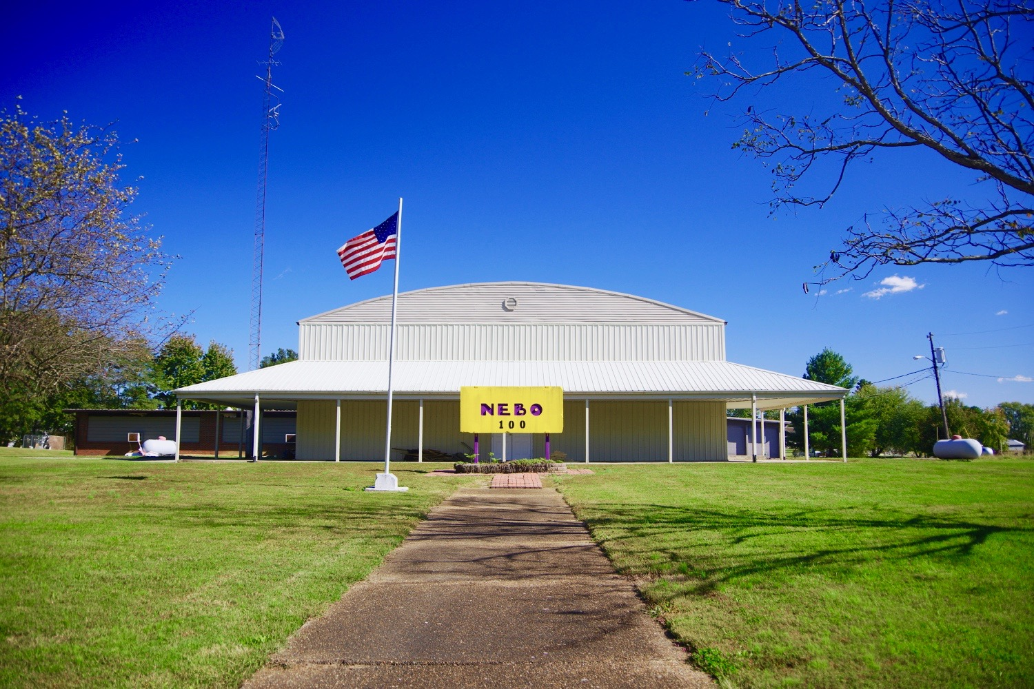 City Hall and community center in Nebo, Kentucky, United States.